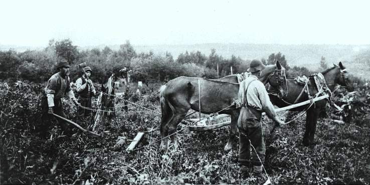 Photograph, Pulling tree stumps, St. André de Matapedia, QC, about 1870, Alexander Henderson, Silver salts on paper - Albumen process - 16 x 21 cm